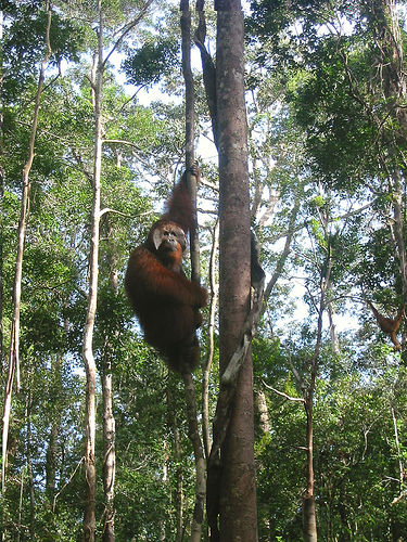 Win the "King" Orangutang in Tanjung Puting National Park. Picture taken in 2005, not long after he took over from Kusasi.